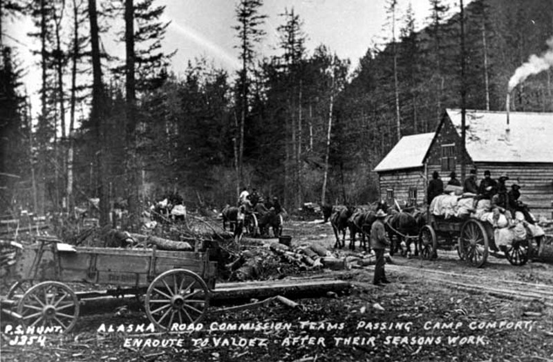 View of wagons carrying Alaska Road Commission employees, in front of Camp Comfort Roadhouse, Valdez-Fairbanks Trail, Alaska. Photographer's number J354. n.d. Photographer: P.S. Hunt. Original photograph size: 3 1/2" x 5".